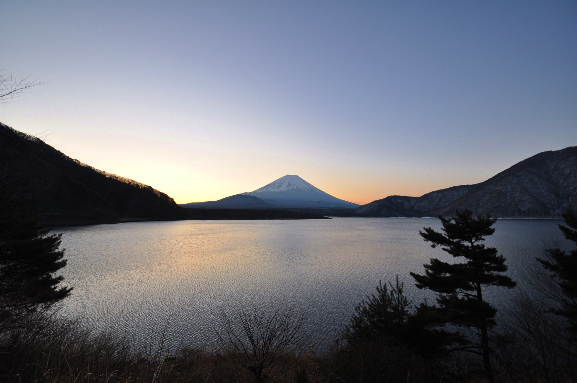 Lake Motosu at the break of day